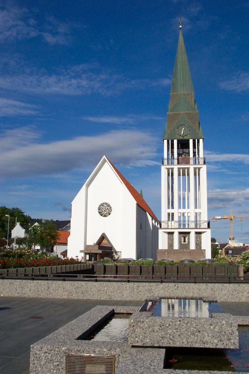 Molde cathedral seen from the roof of town hall.